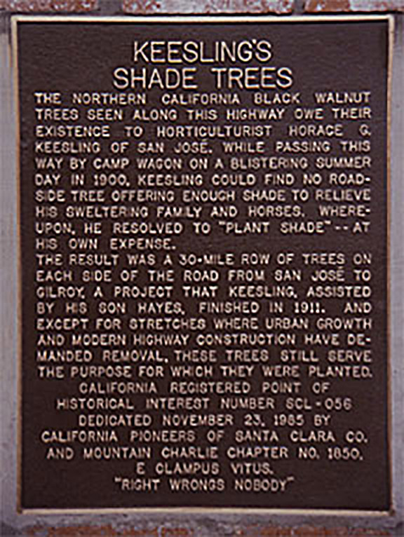 This plaque is located on the west side of Monterey Highway (State Route 82), (next to the train tracks) in San Jose. 0.5 (one-half) mile south of Capitol Expressway, or 0.34 mile south of Senter Road, or 0.16 mile north of Skyway Drive. Note: There is no stopping or parking allowed on this part of Monterey Highway. Park at one of the nearby businesses on the east side of the road between Skyway and Senter Road and carefully cross the busy highway on foot.